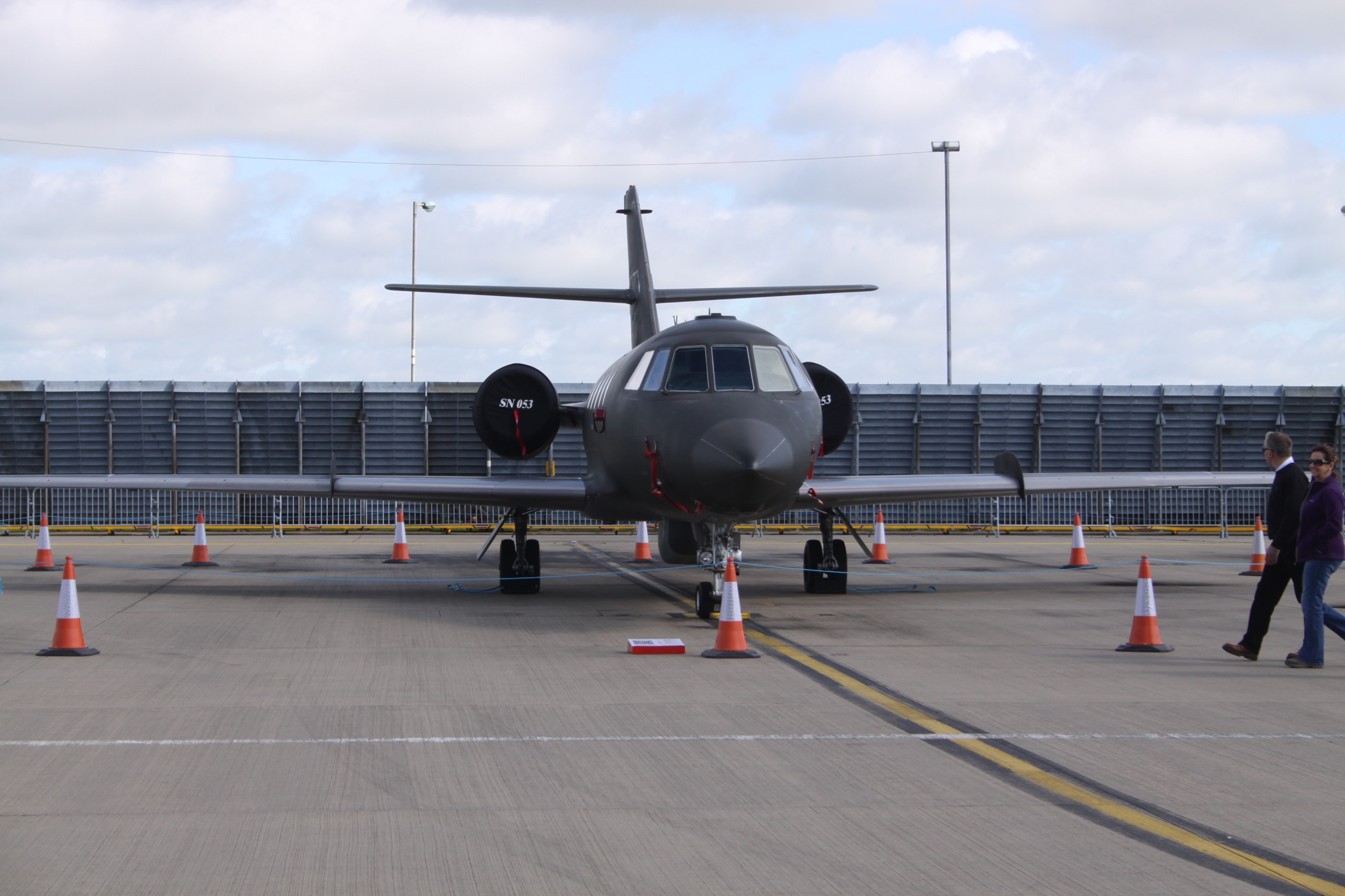 At RAF Waddington